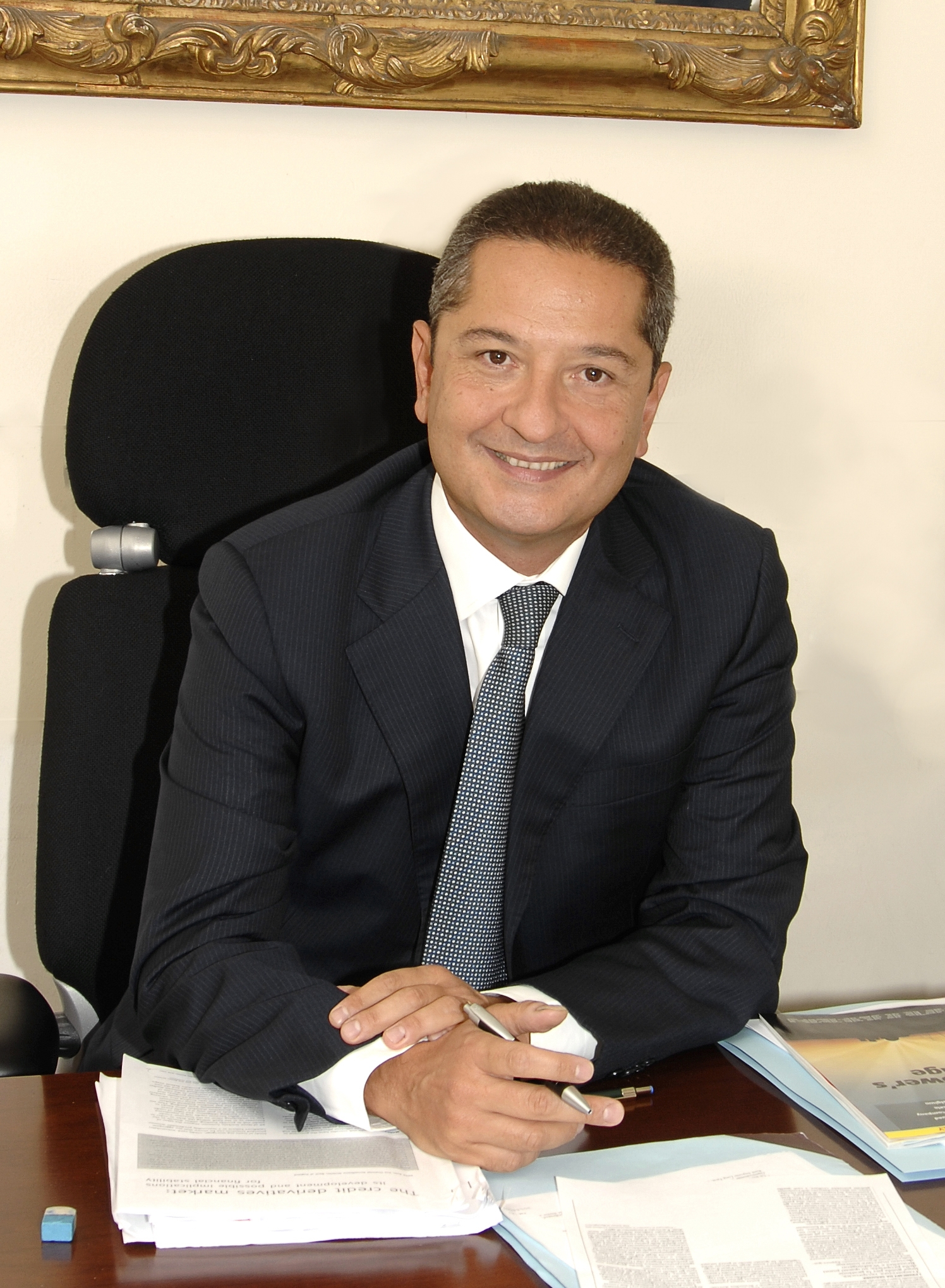 Fabio Panetta